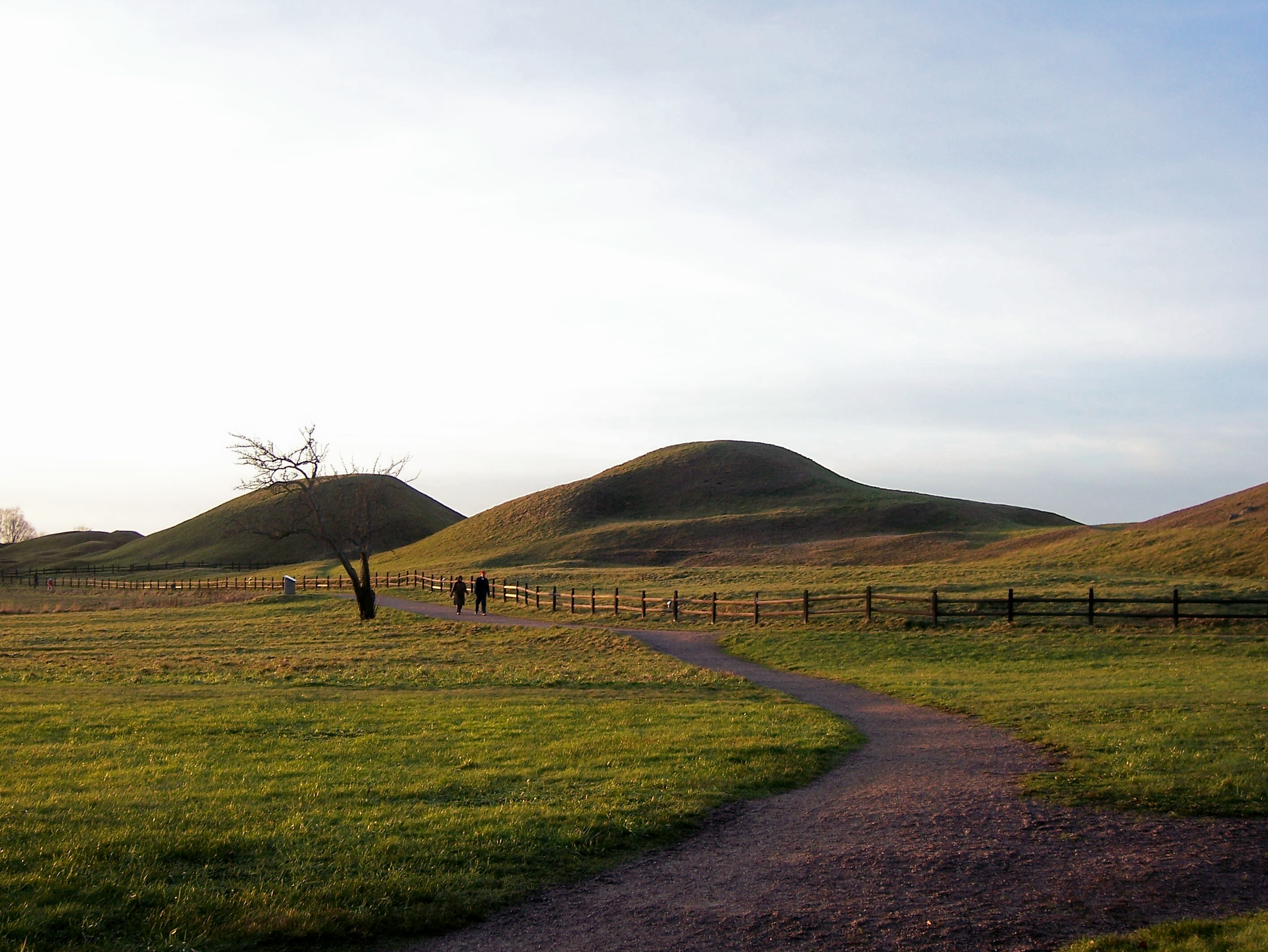 Royal burial mounds at Old Uppsala at sunset.